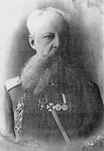 Photo of Peter von Bilderling taken around 1890